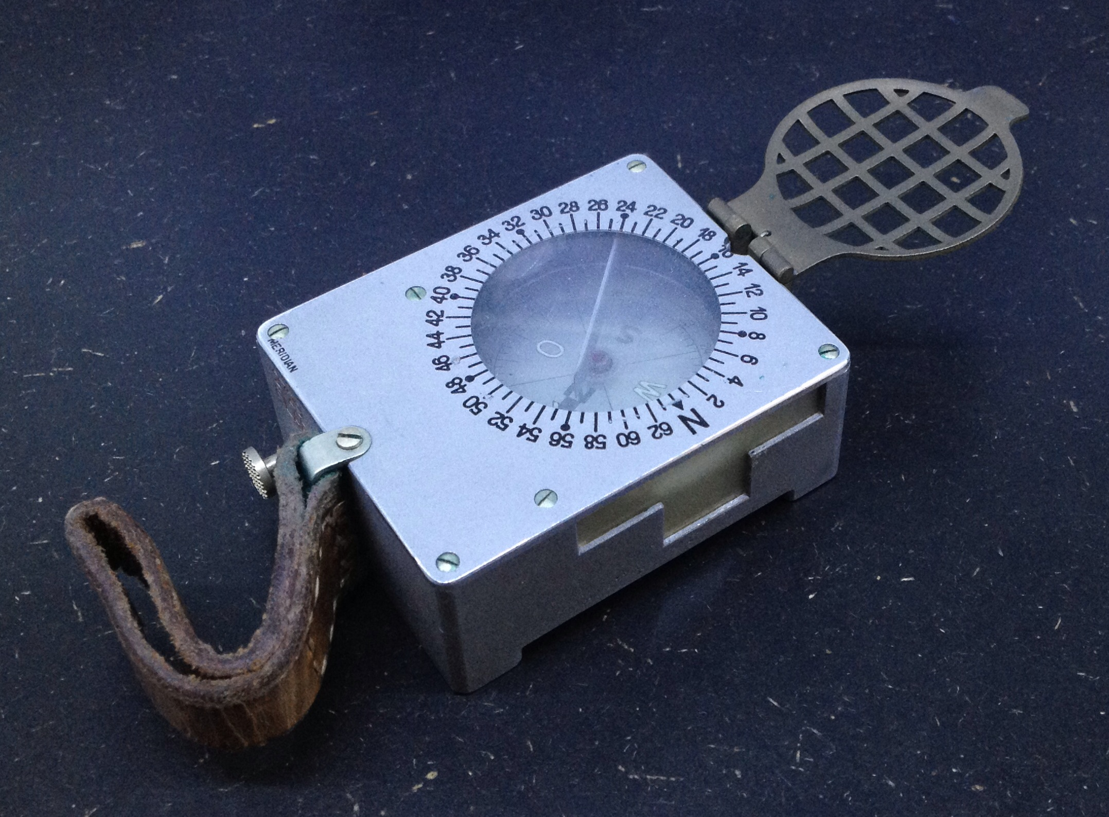 Swiss army sitometer, 1960